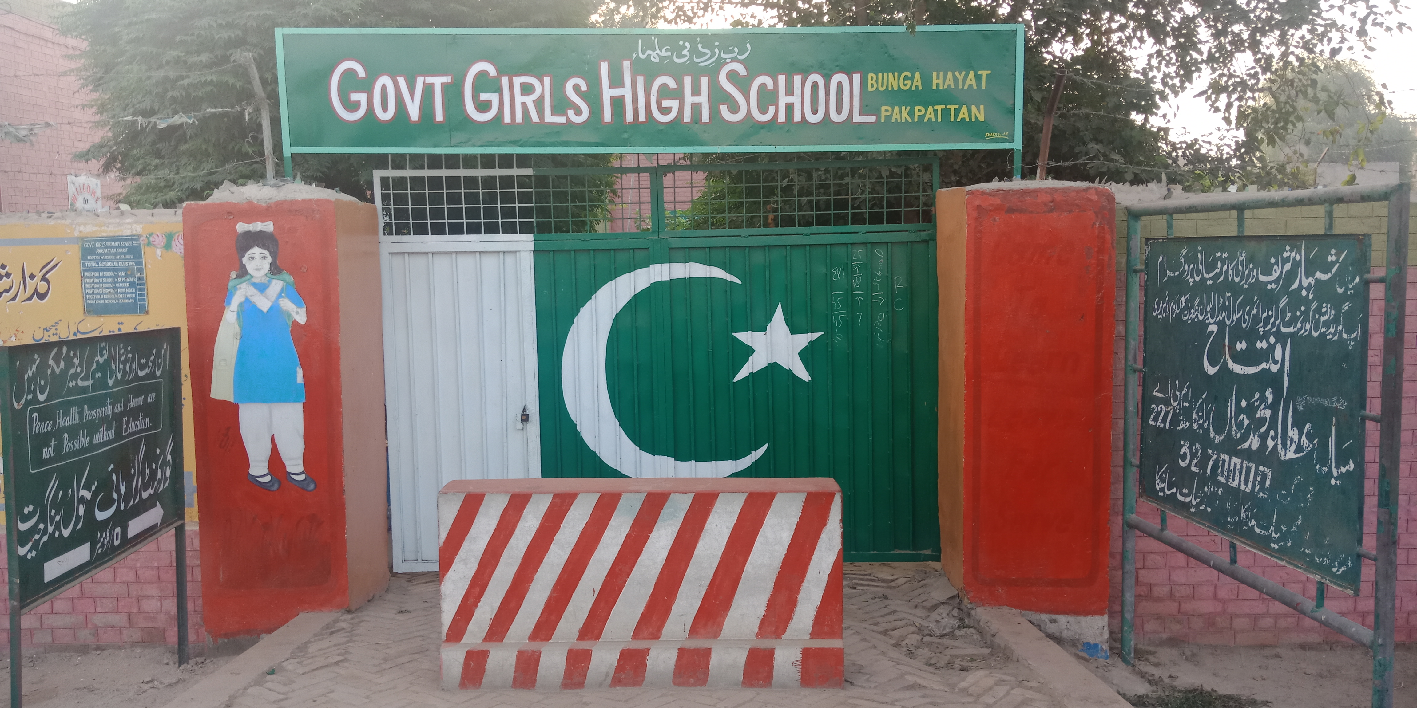 Govt Girls High School Bunga Hayat